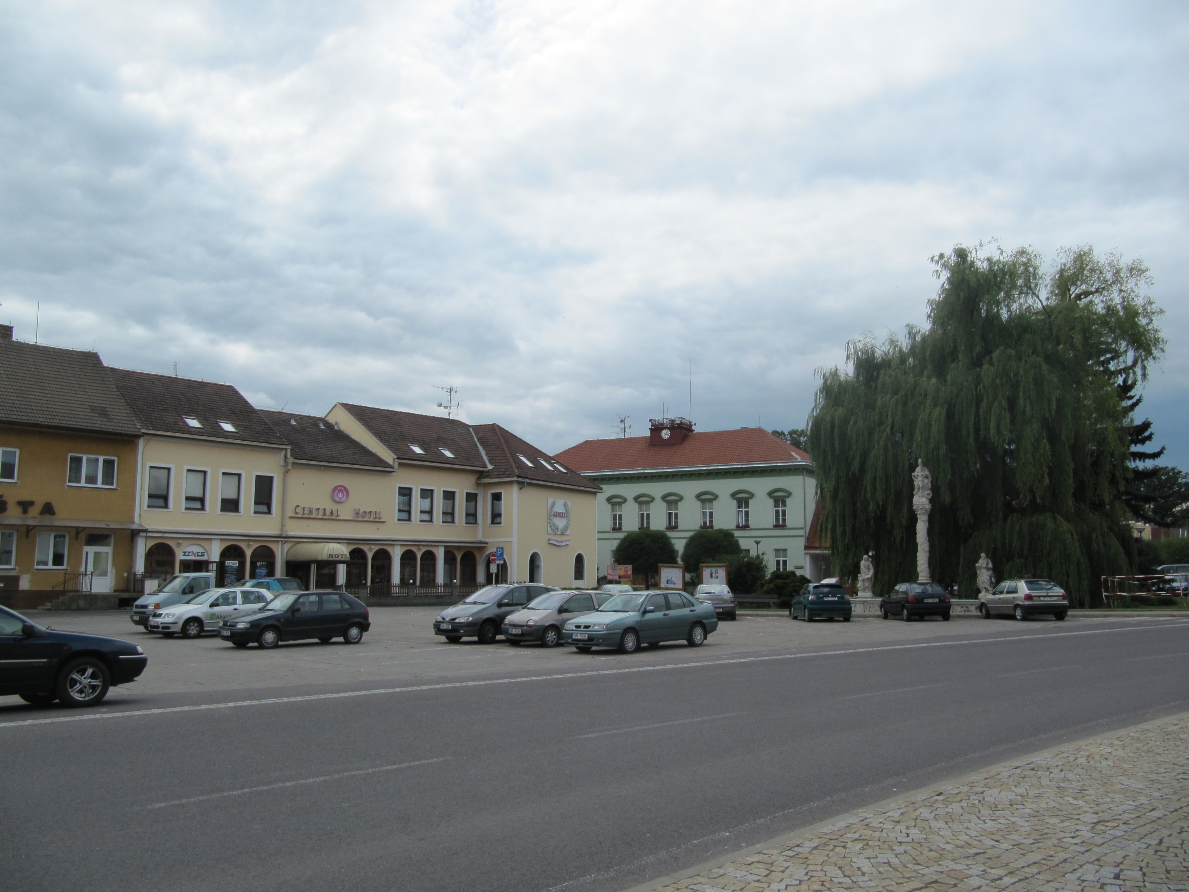 Hrušovany nad Jevišovkou in Znojmo District, Czech Republic. Square Náměstí Míru with Hotel Central, town hall and baroque sculpture of the Holy Trinity.